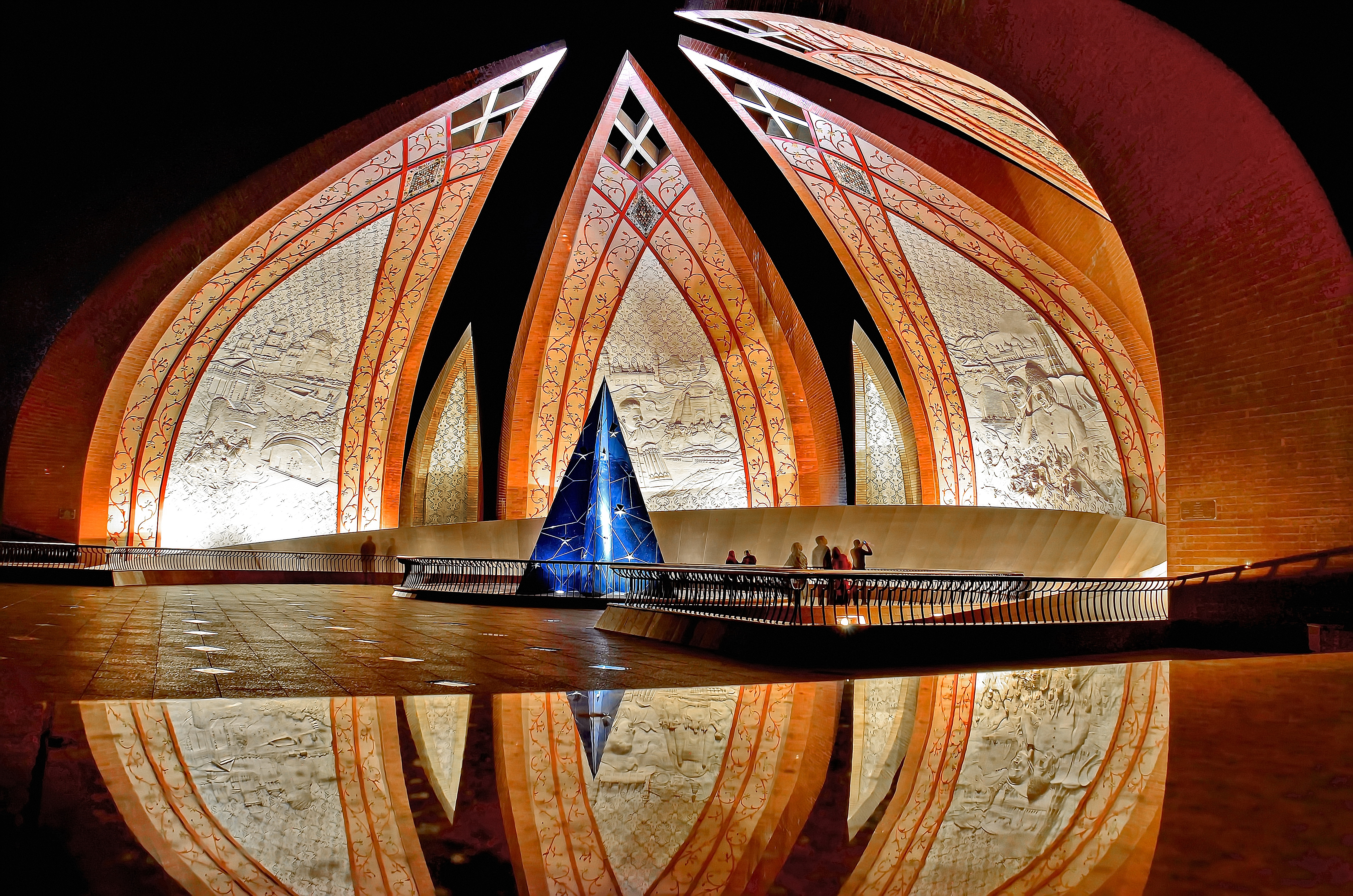 Pakistan Monument, Islamabad This is a photo of a monument in Pakistan identified as the ICT/1